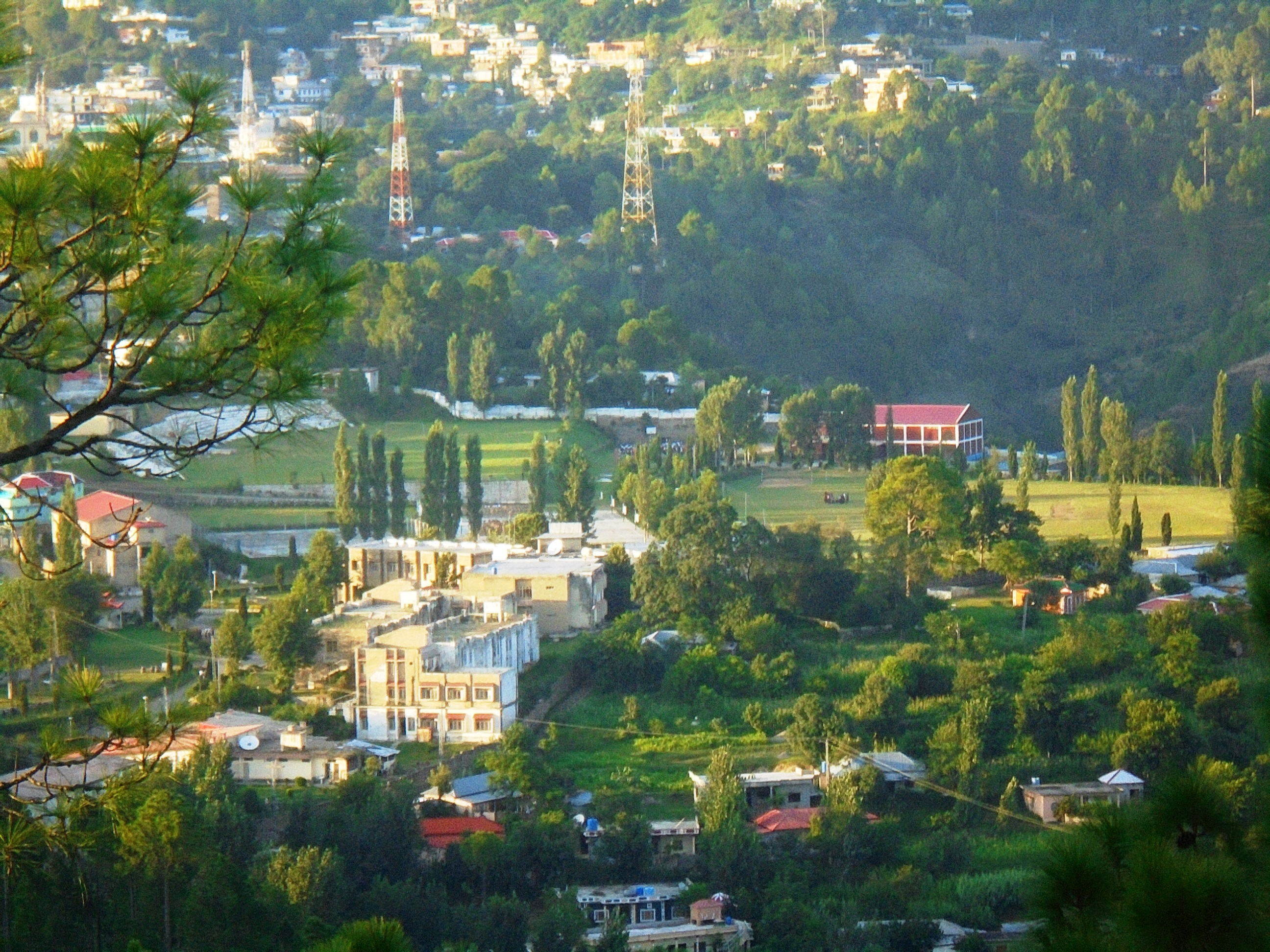 The beautiful picture of Pallandri. The gorgoius building of Cadet Collage Palladri.